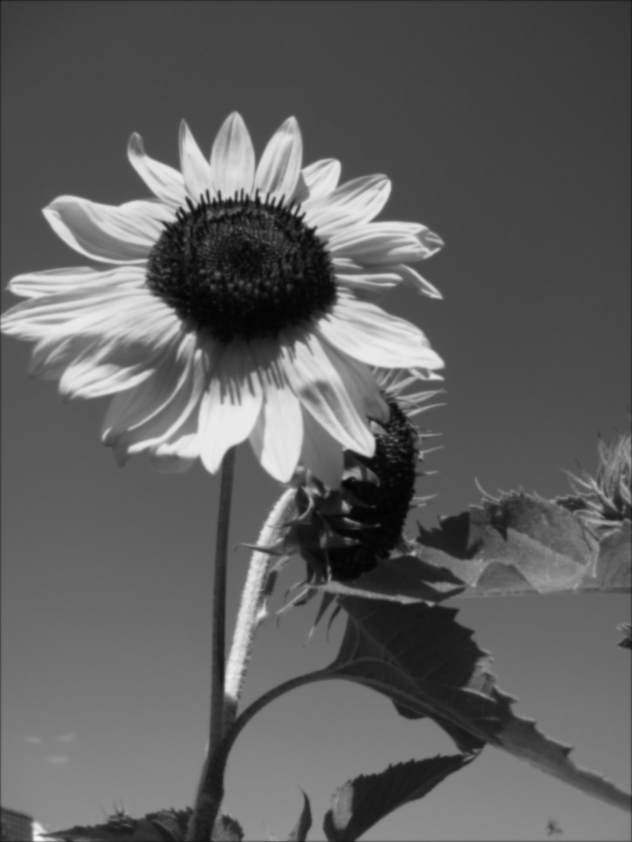 Sun flower picture smoothed with Deriche IIR filter withat parameter aplha = 0.5